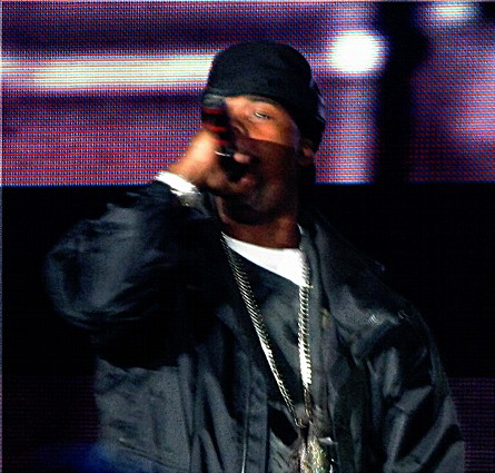 Malik Cox)